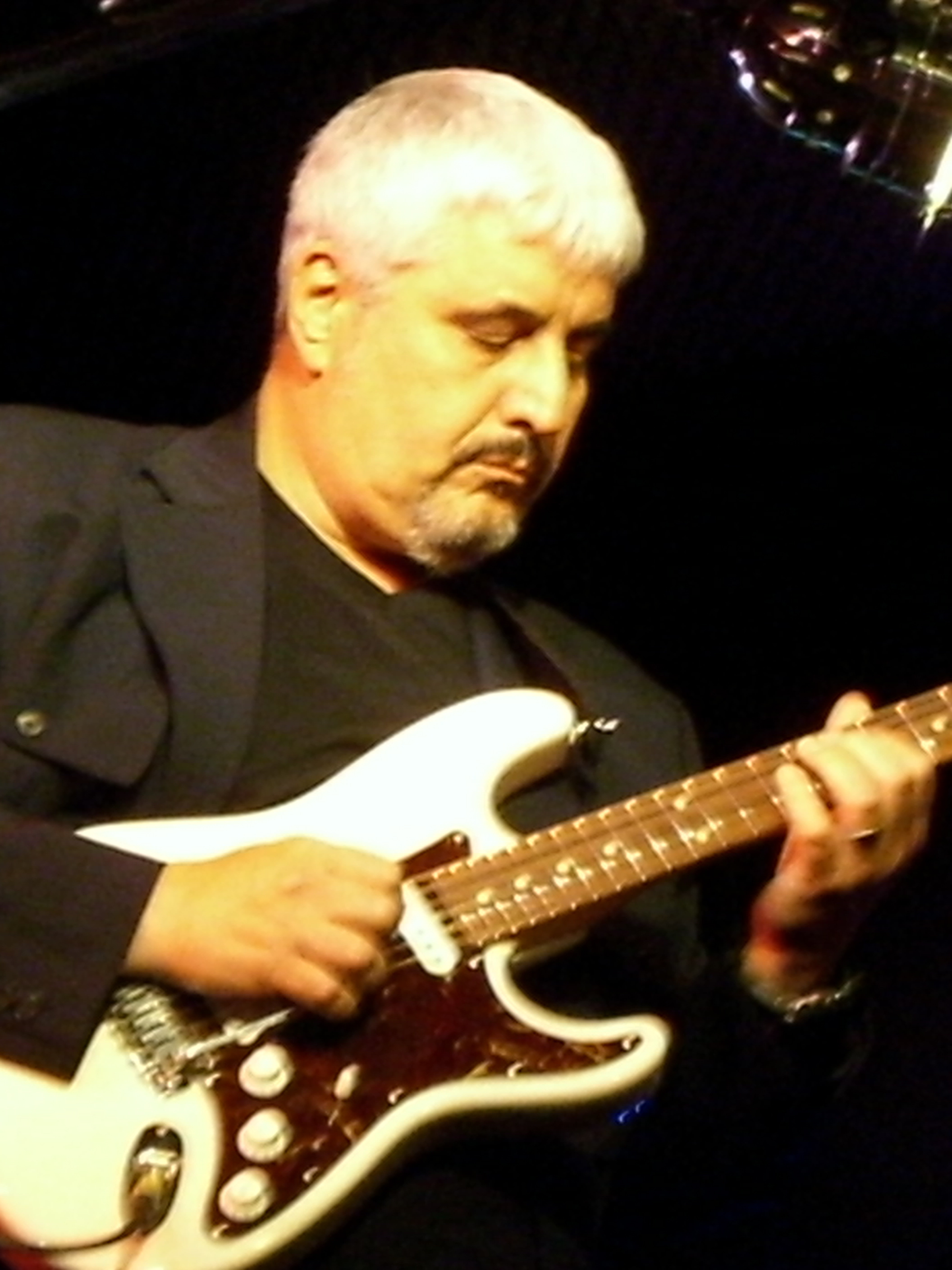 Pino Daniele italian blues guitarists and singer